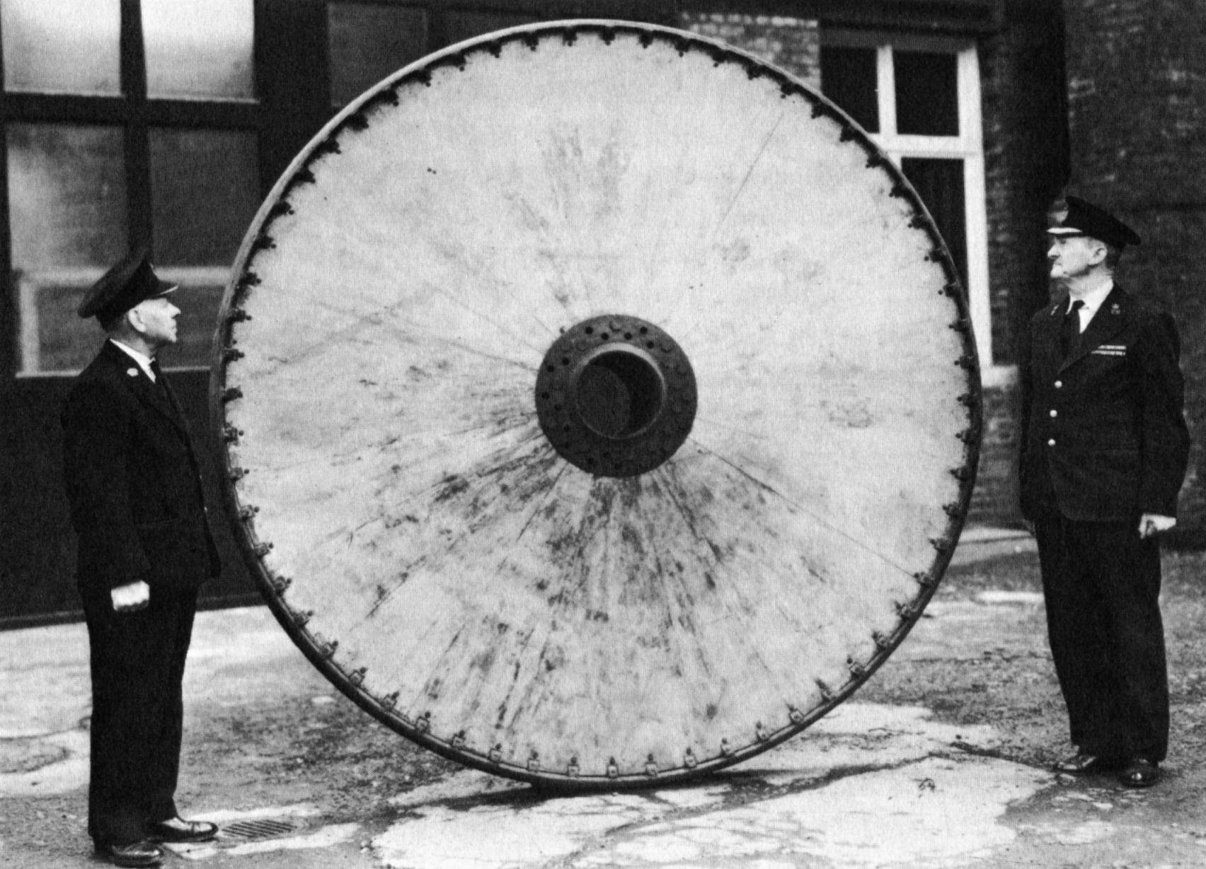 A wheel of the German giant Mannesmann Poll Triplane Bomber after its discovery by a Royal Air Force team of the Interallied Military Control Commission near Cologne, 1919.